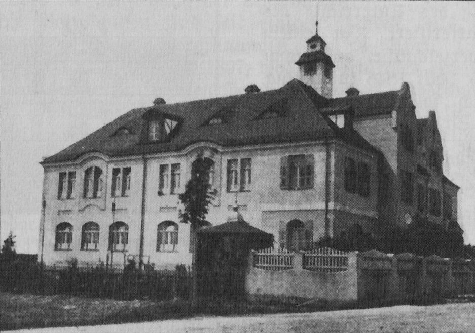 Historic photography from Munich-Aubing, Germany. "New Schoolhouse", today's Limesschule.